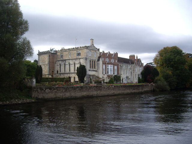 Bishopthorpe Palace by the Ouse Grace & Favour home to the Archbishops of York.